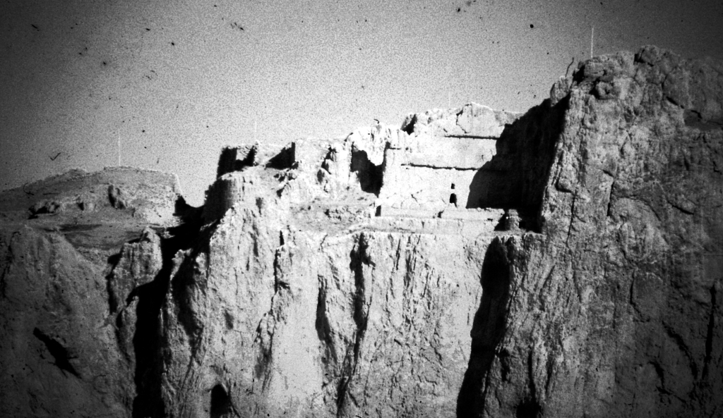 I took these photos on a holiday in Van in 1973